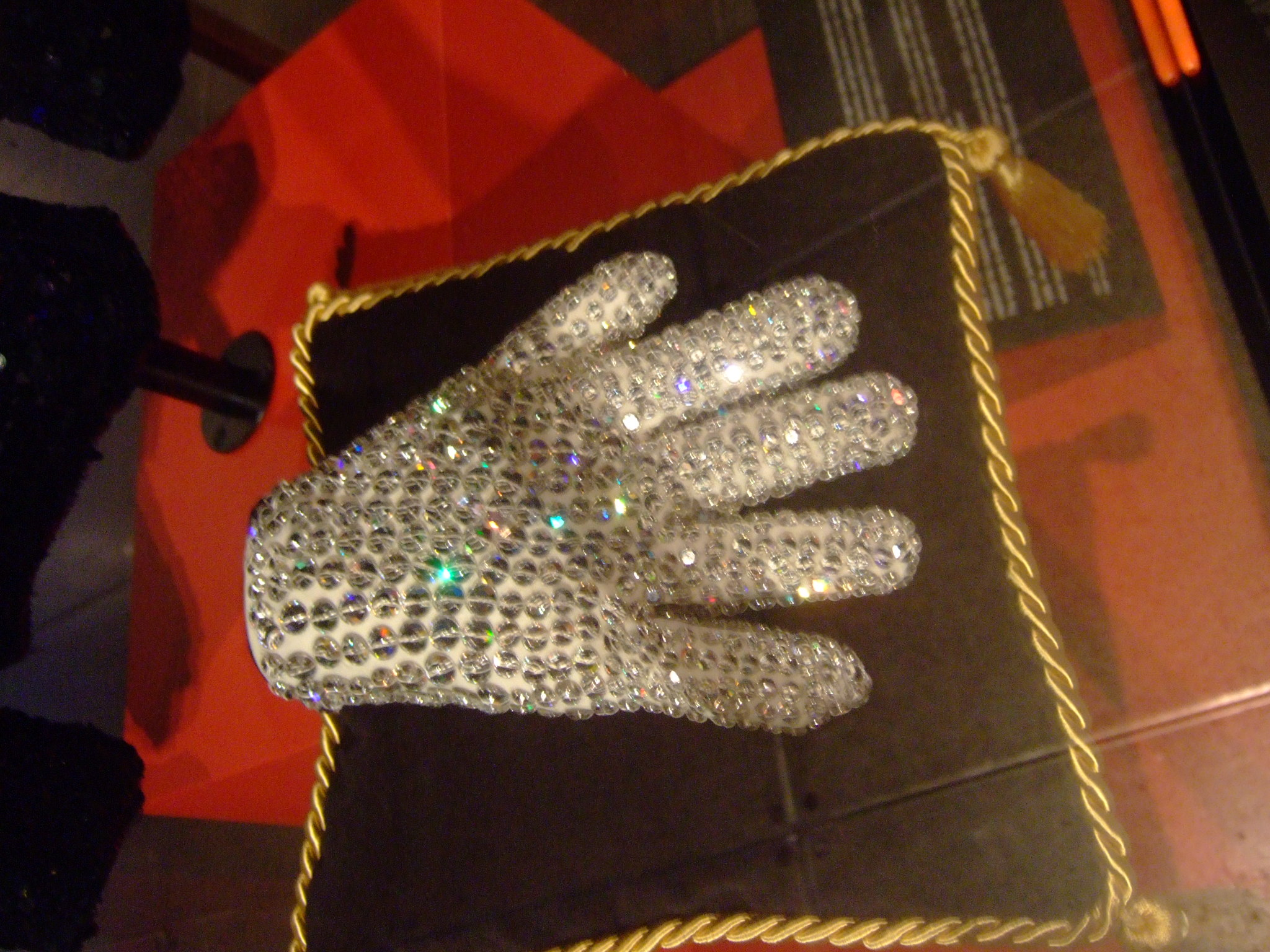 Experience Music Project/Science Fiction Hall of Fame, Seattle.